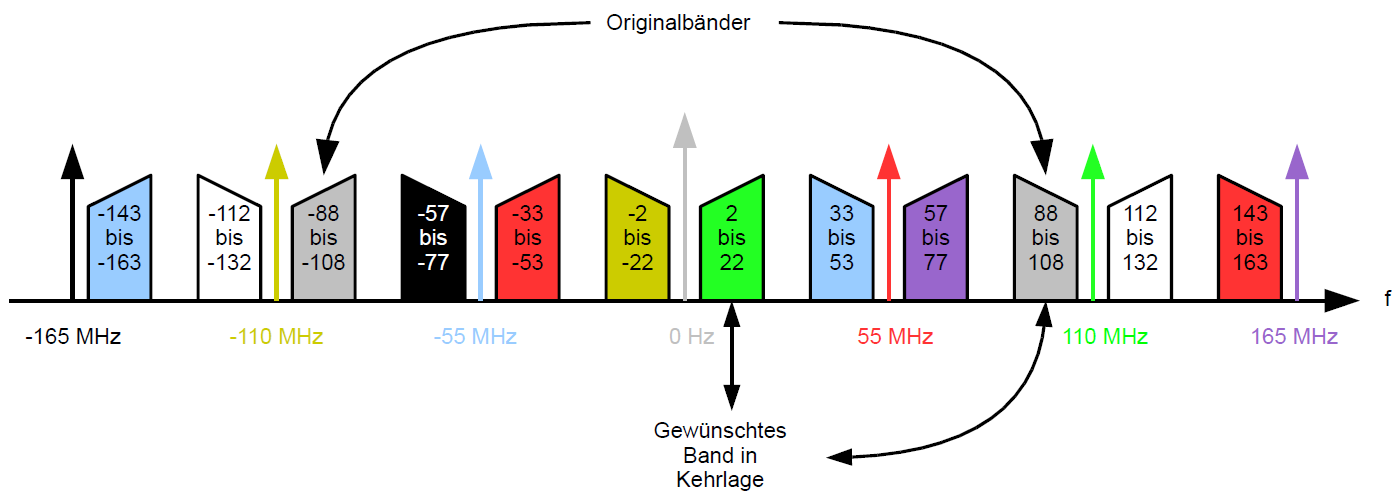 Example of bandpasssubsampling: UKW-radio (88..108 MHz) m = 3 is choosen